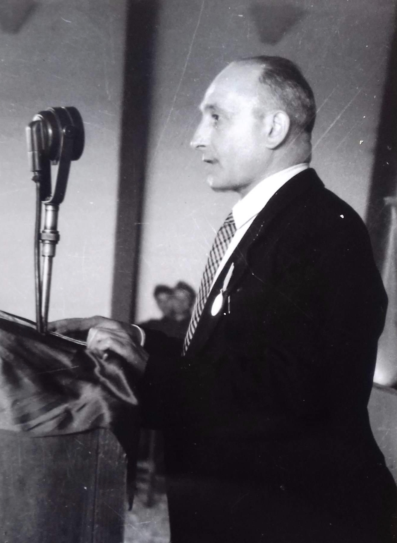 Sejfulla Malëshova giving a speech as Minister of Culture